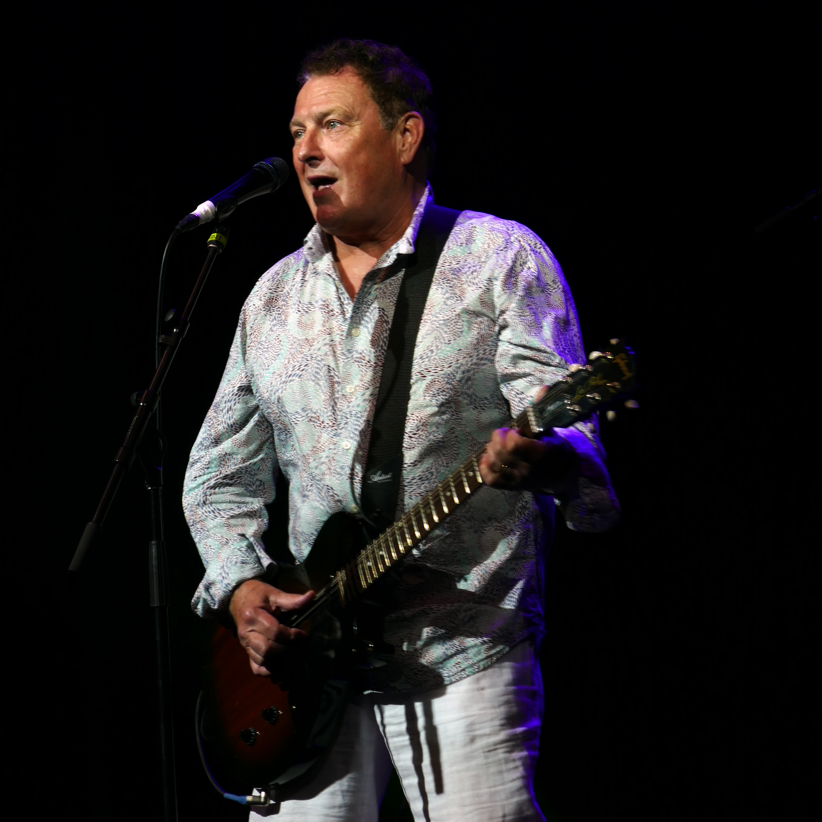 Musician Ross Wilson performing on 24 October 2018.